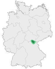 Location of Frankenwald in Germany / ja: ドイツのフランケンの森の場所